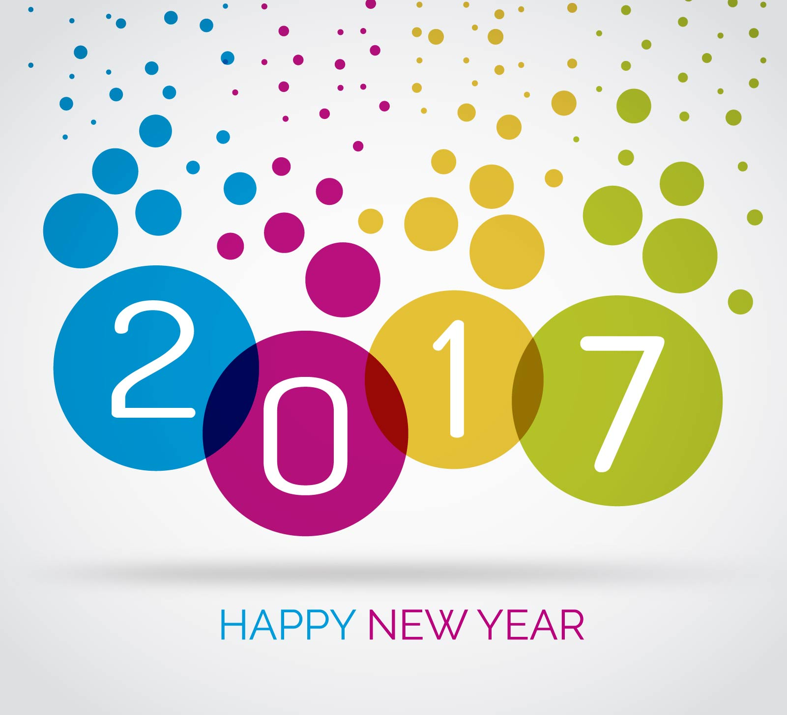 2017 poster design featuring big numbers inside an colorful circles. Design also says Happy New Year!